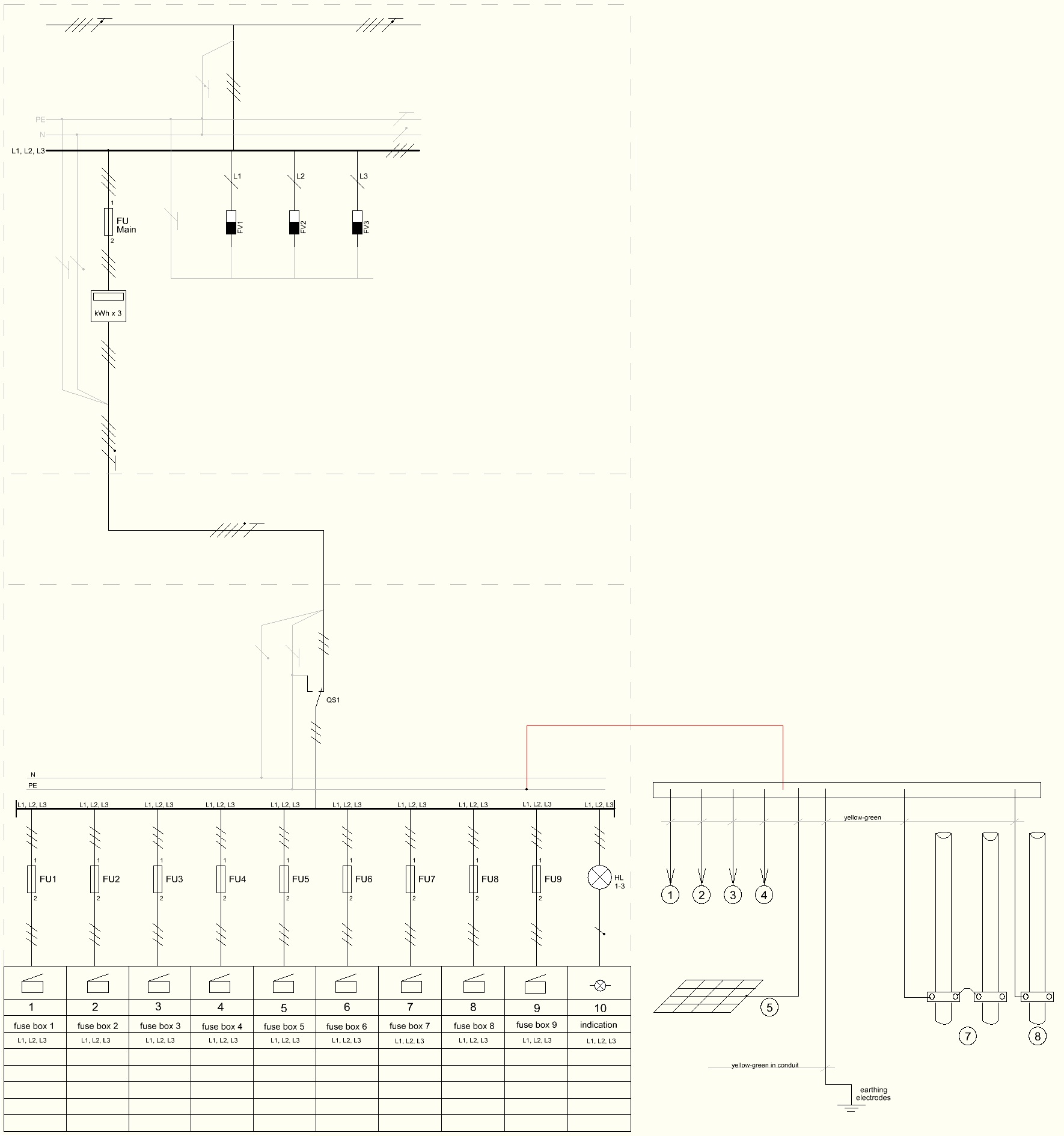 Wiring diagram of introduction device.